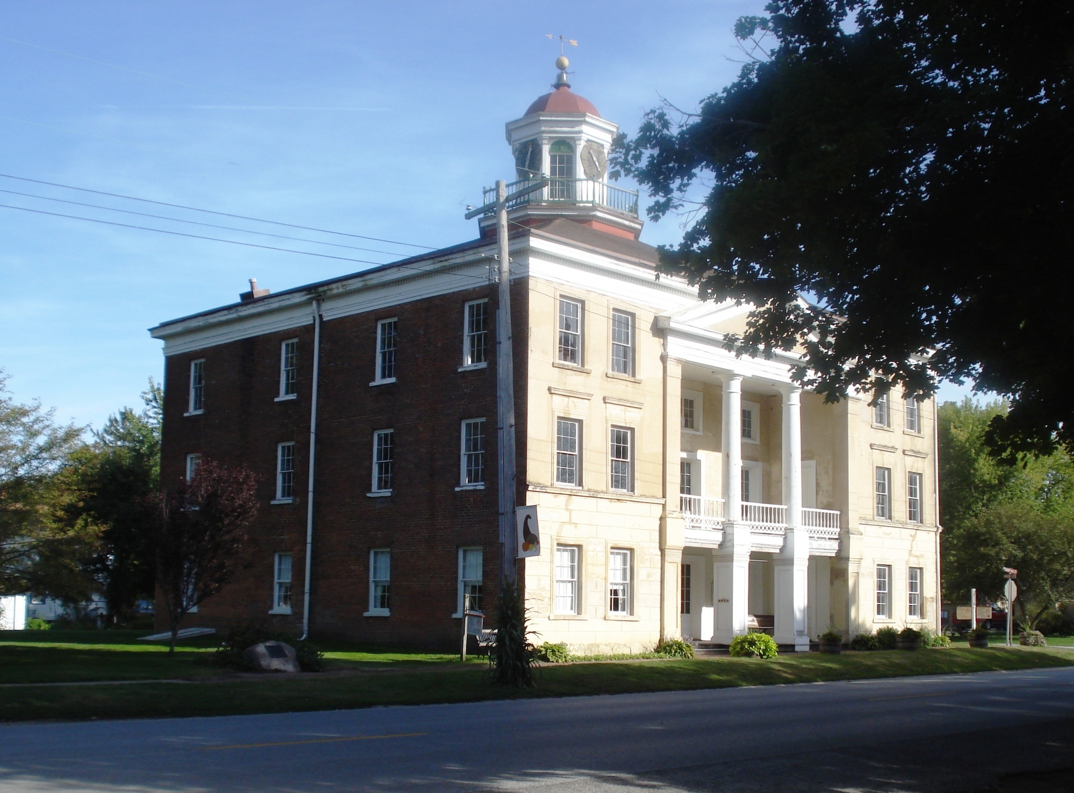 Completed in 1854. The Steeple Building became a school for children.